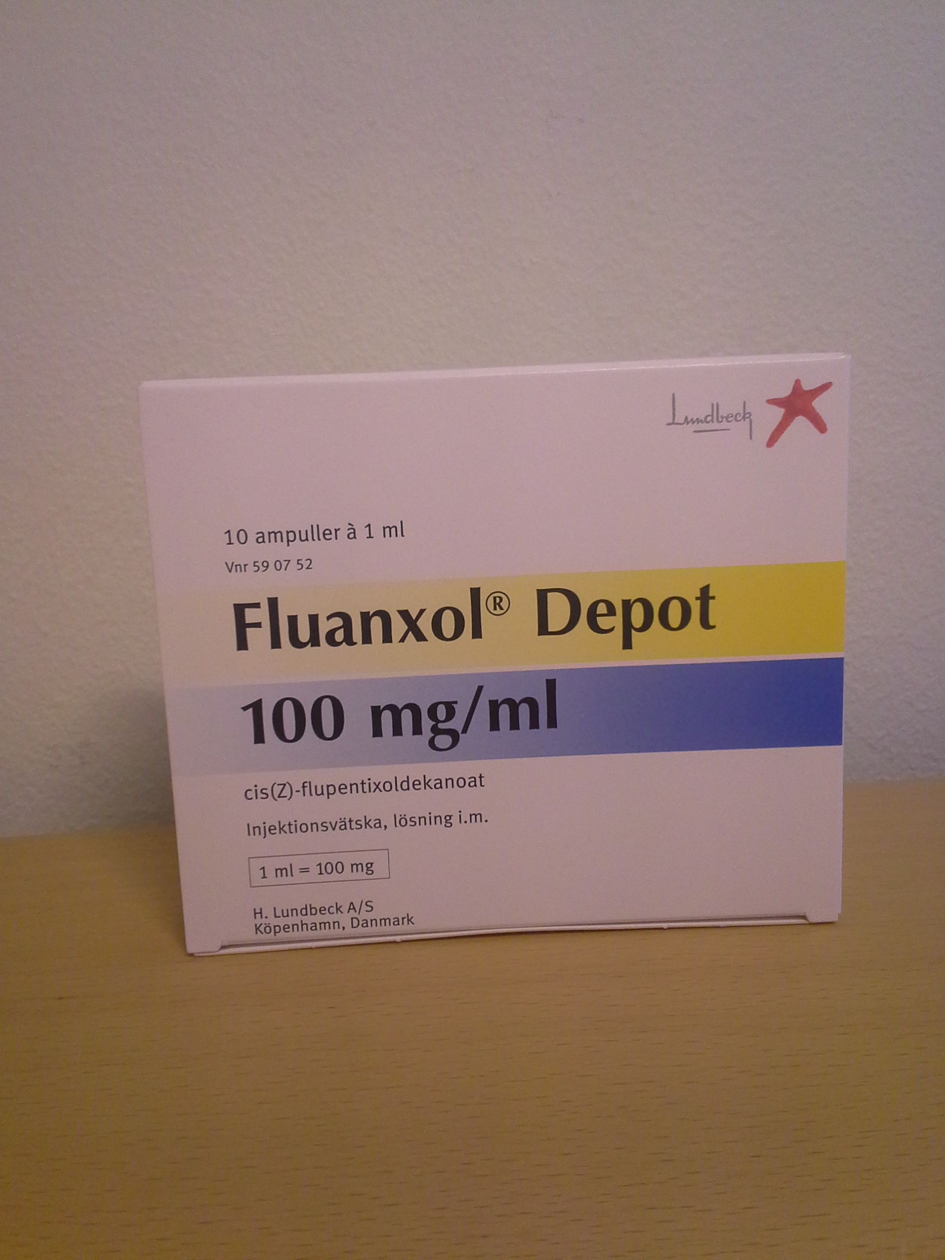 Fluanxol Depot (Flupentixol).